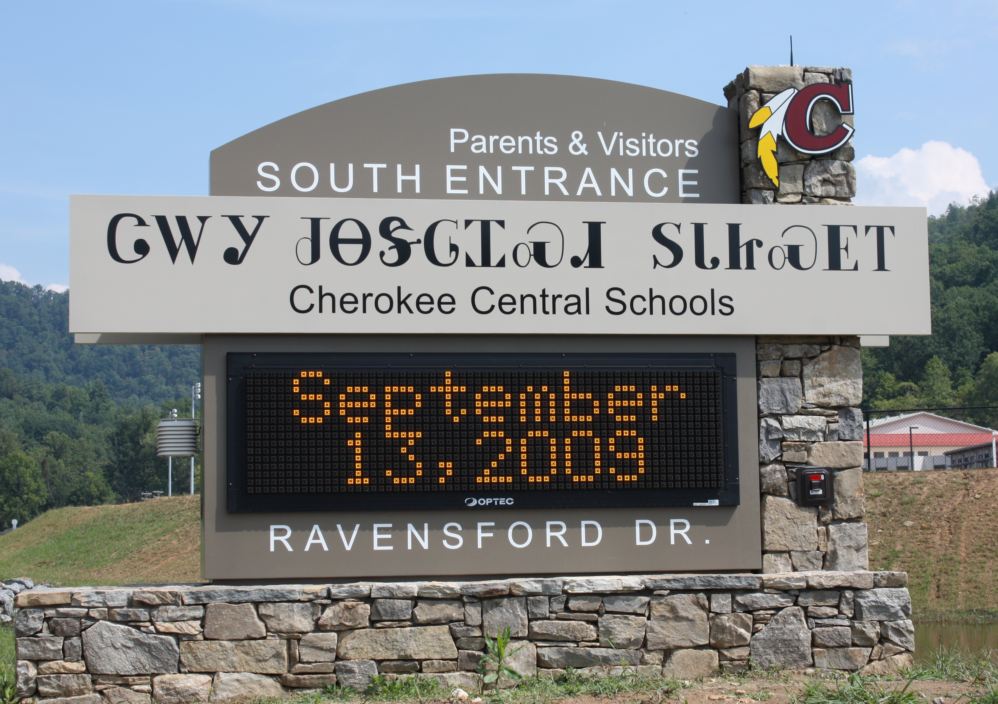 Sign at the entrance to Cherokee Central Schools in Cherokee, North Carolina.